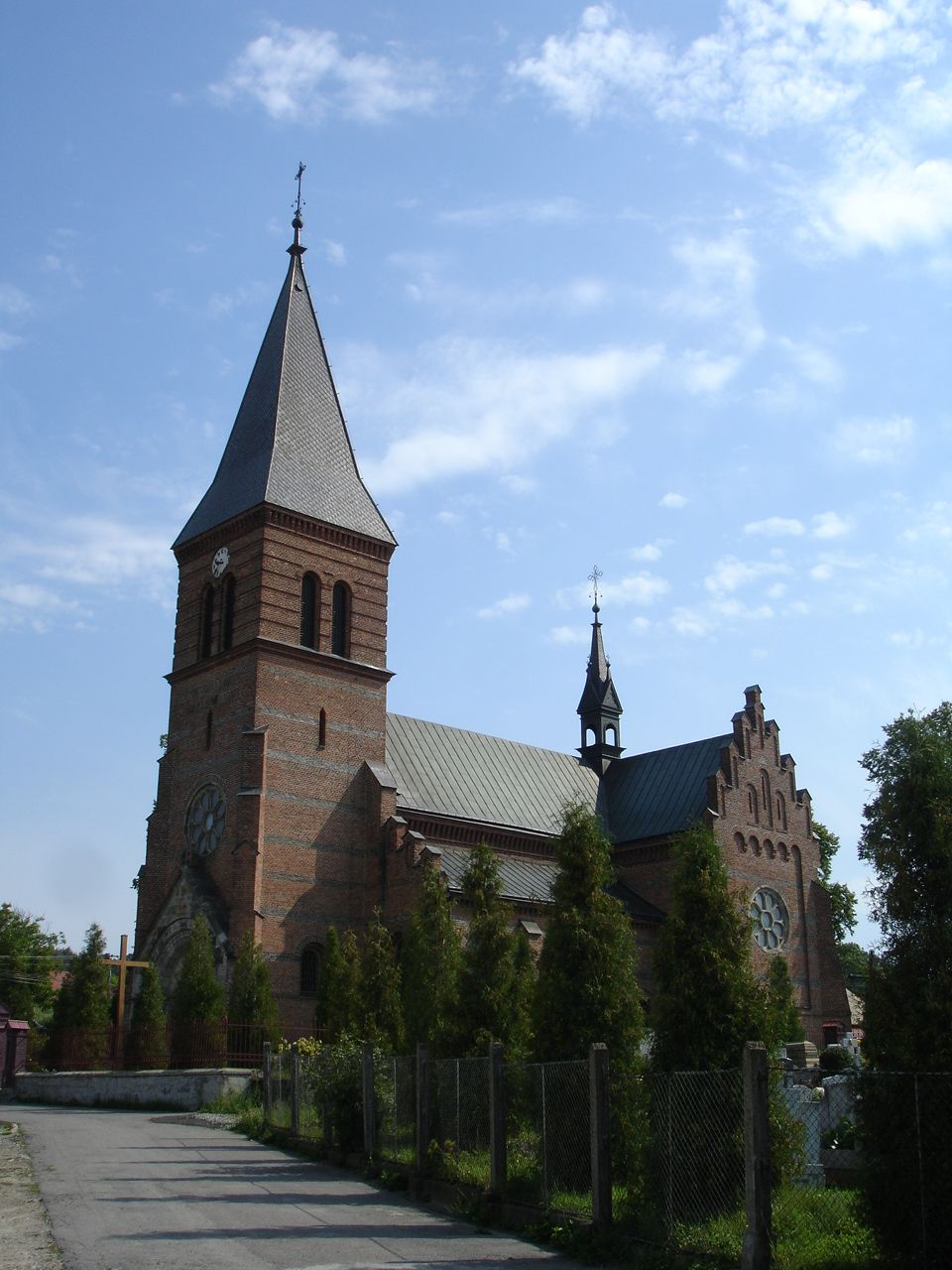 Roman Catholic parish church in Trześniów